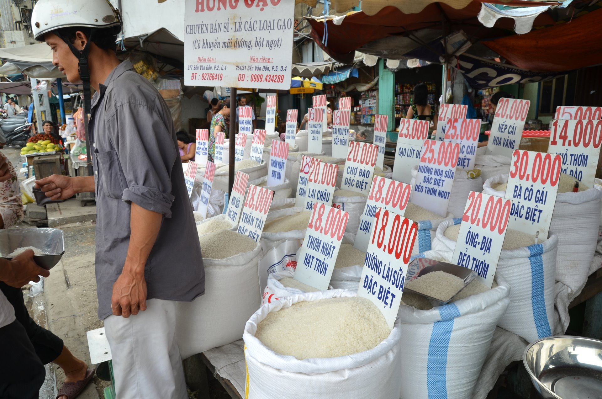 A shop selling rice next to a market in Ho Chi Minh City, Vietnam.